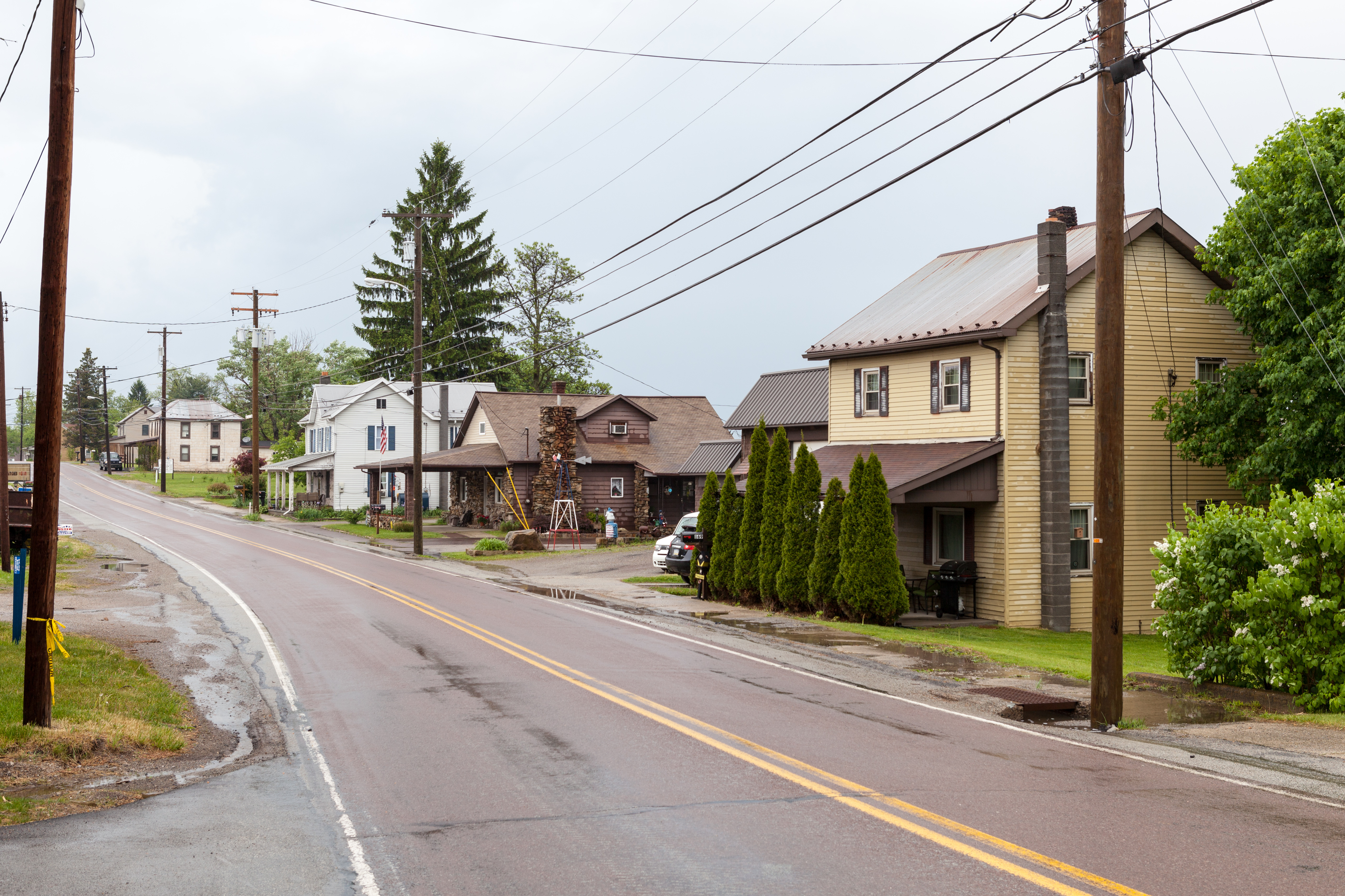 Markleysburg, Pennsylvania, looking northeast on Main Street near house number 169.